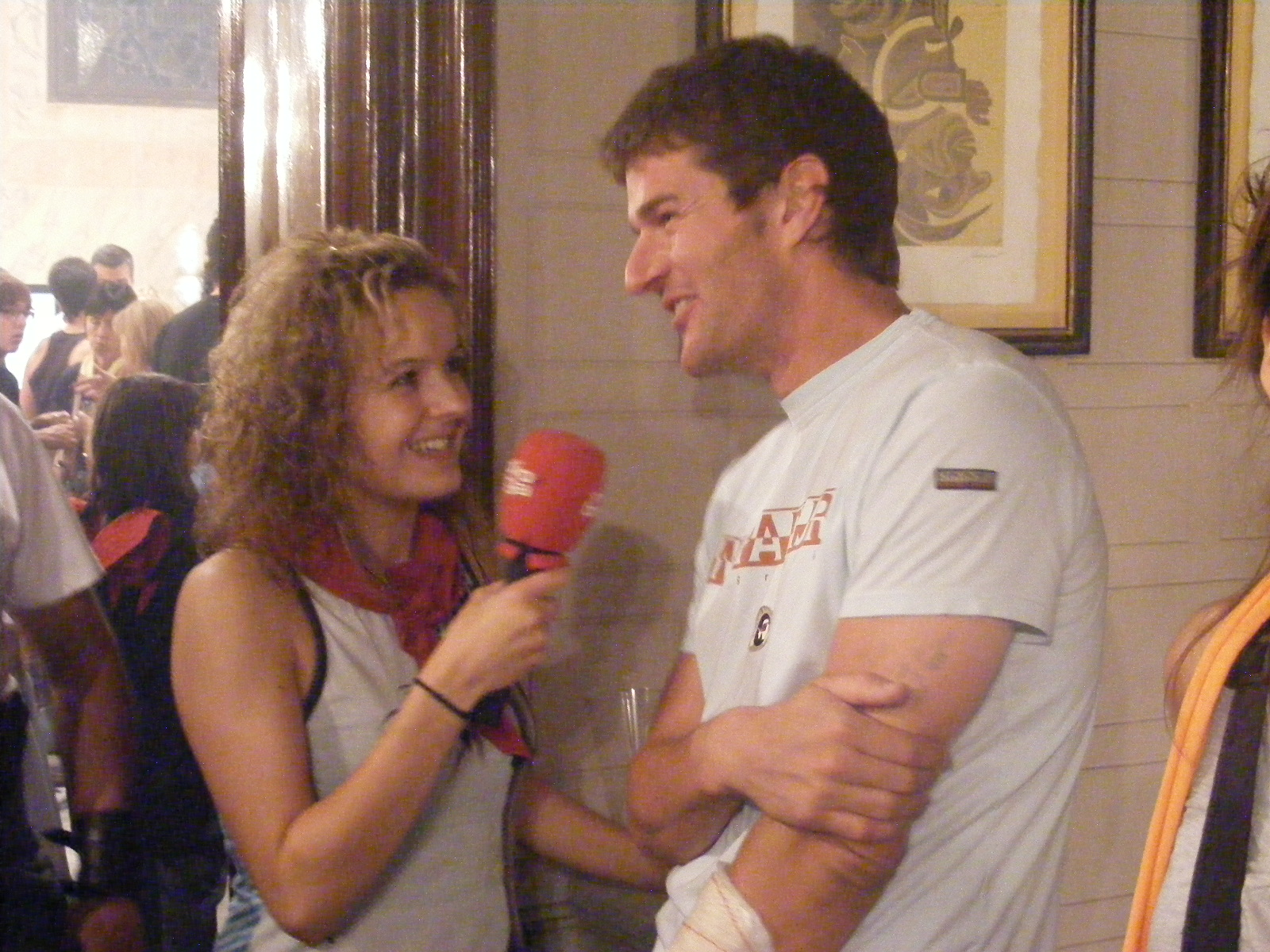 Marc COma interviwed in Berga (Catalonia), on 2009